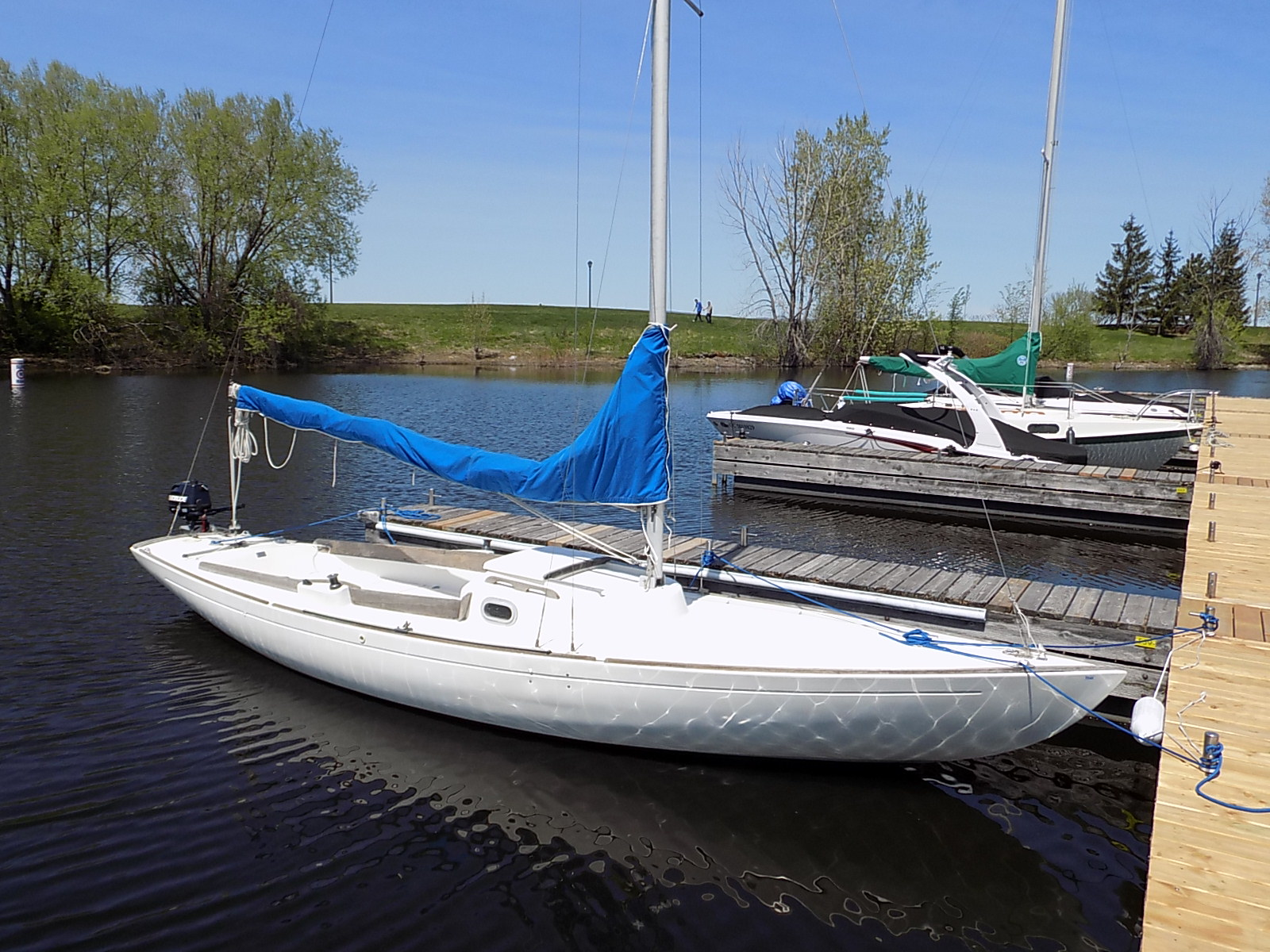 A William Roué designed Bluenose one design sailboat named Kolibri.